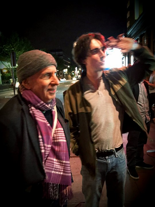 Danny Fields with Jake Elliott from False Heads outside Camden Assembly